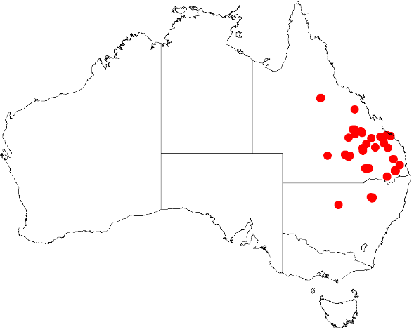 Bertya opponens Occurrence data downloaded on 22 June 2019 from Australasian Virtual Herbarium using